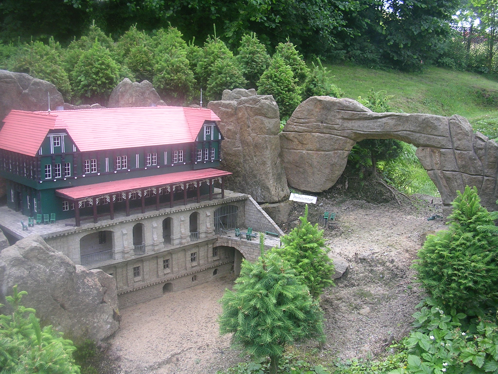 Little Saxon Switzerland is a park in Dorf Wehlen (Stadt Wehlen, Saxony, Germany) with models of buildings, nature und transport of Saxon Switzerland.